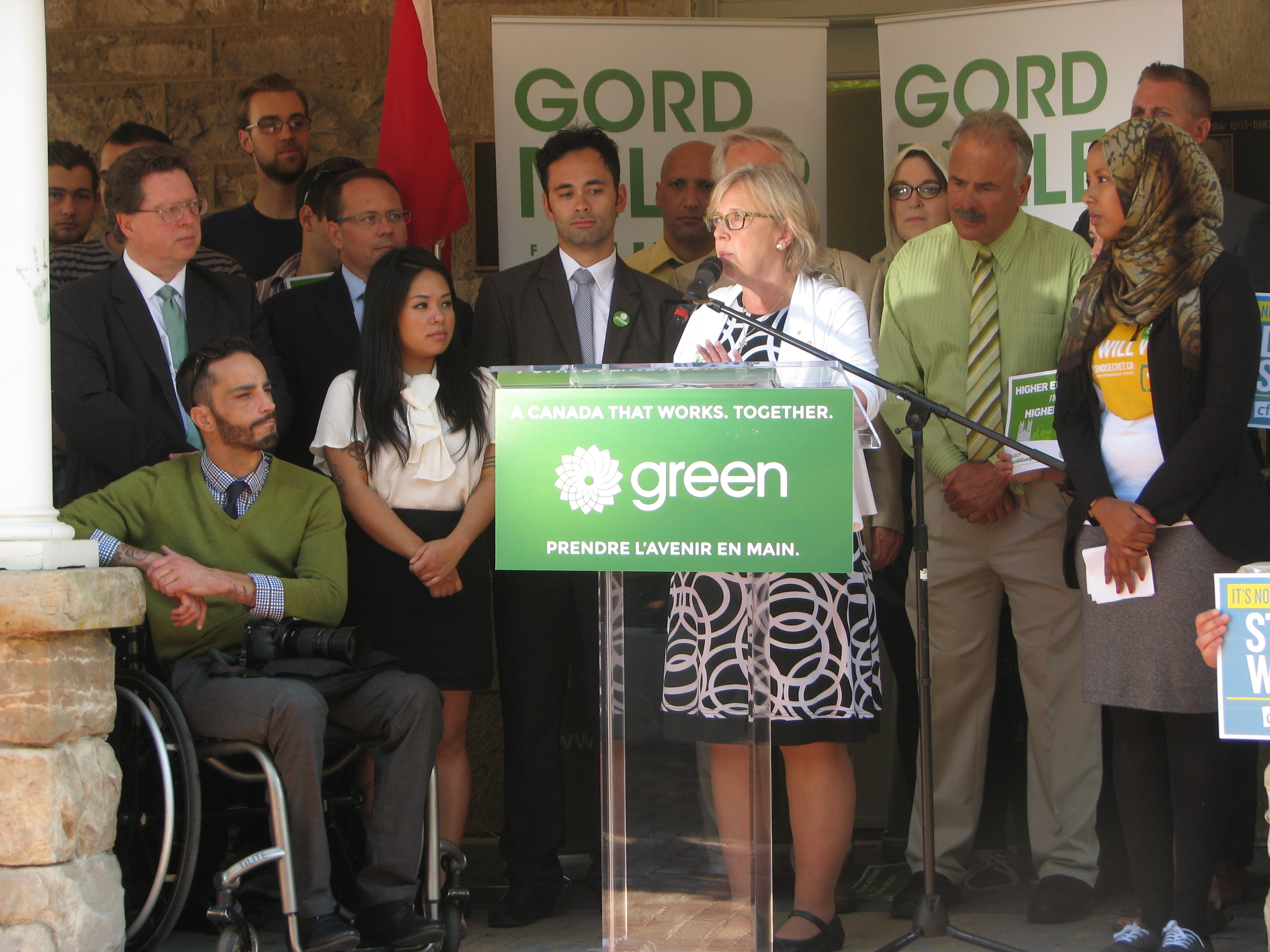 Elizabeth May Onstage_4472